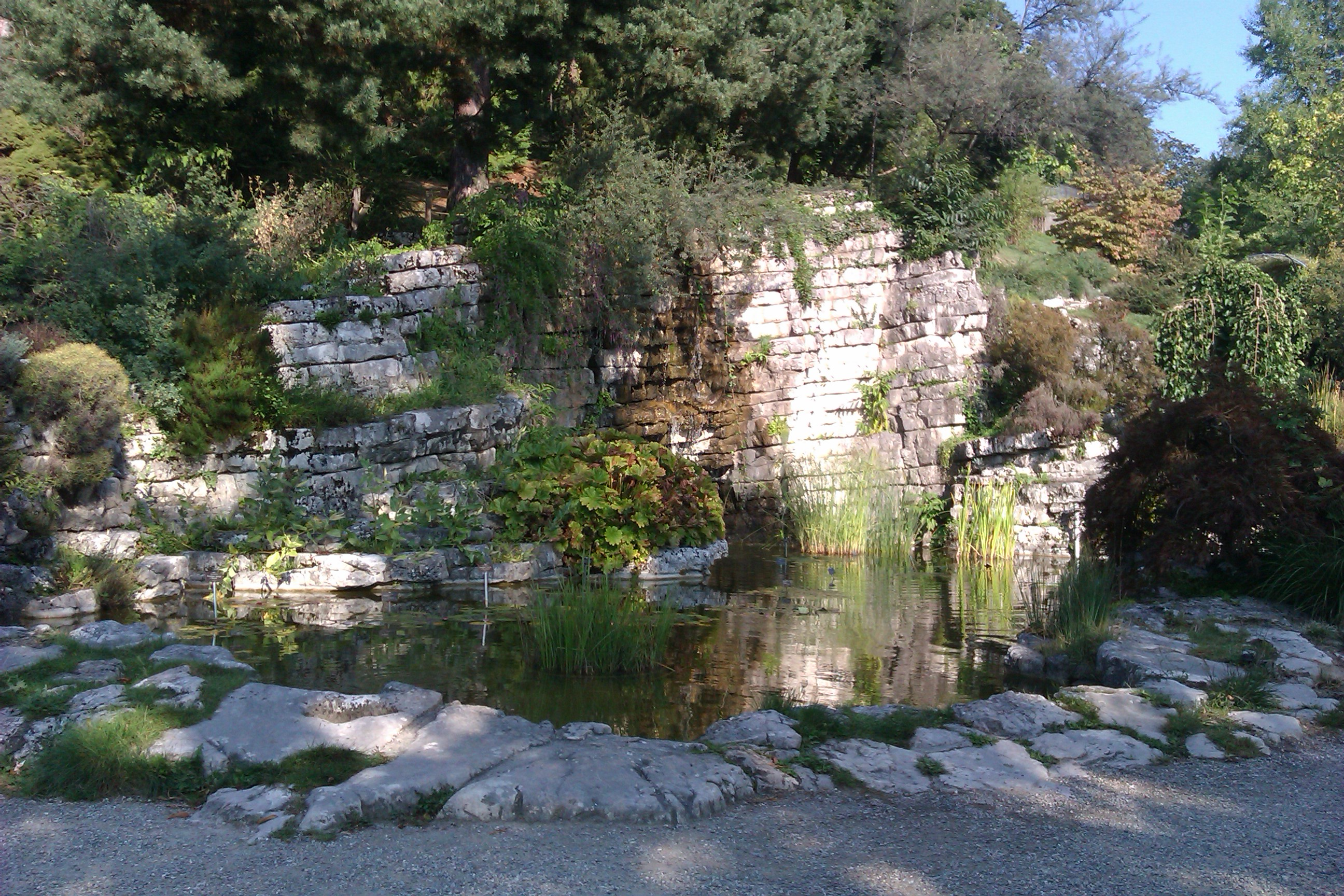 In the Jardin Botanique Cantonal Lausanne.